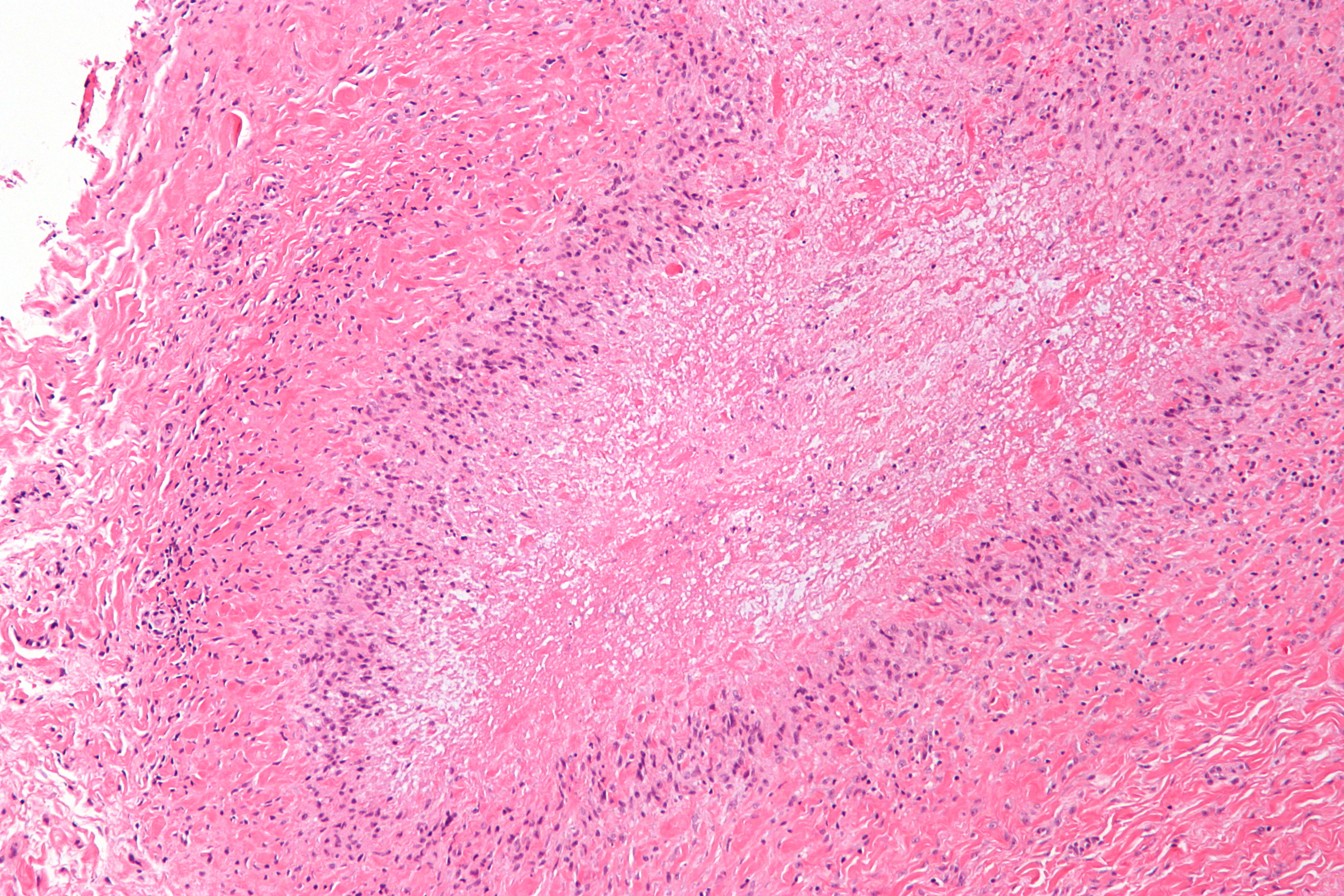 Intermediate magnification micrograph of a rheumatoid nodule. H&E stain. Related images Low mag. Intermed. mag. Intermed. mag. High mag. Very high mag.